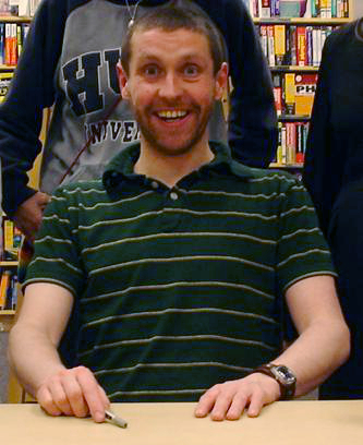 Dave Gorman, cropped